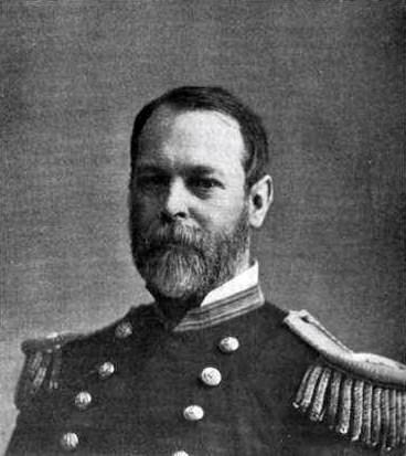 Photograph of William Harkness, the US astronommer